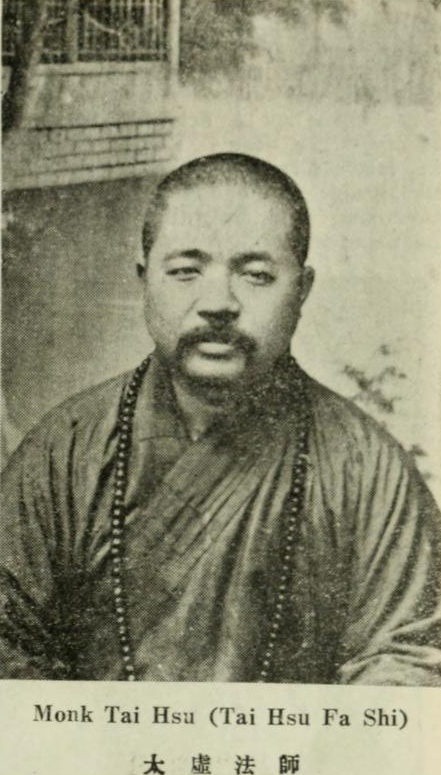 Taixu (T'ai-hsü) or Shi Taixu (Shih T'ai-hsü) (1890 - 1947)